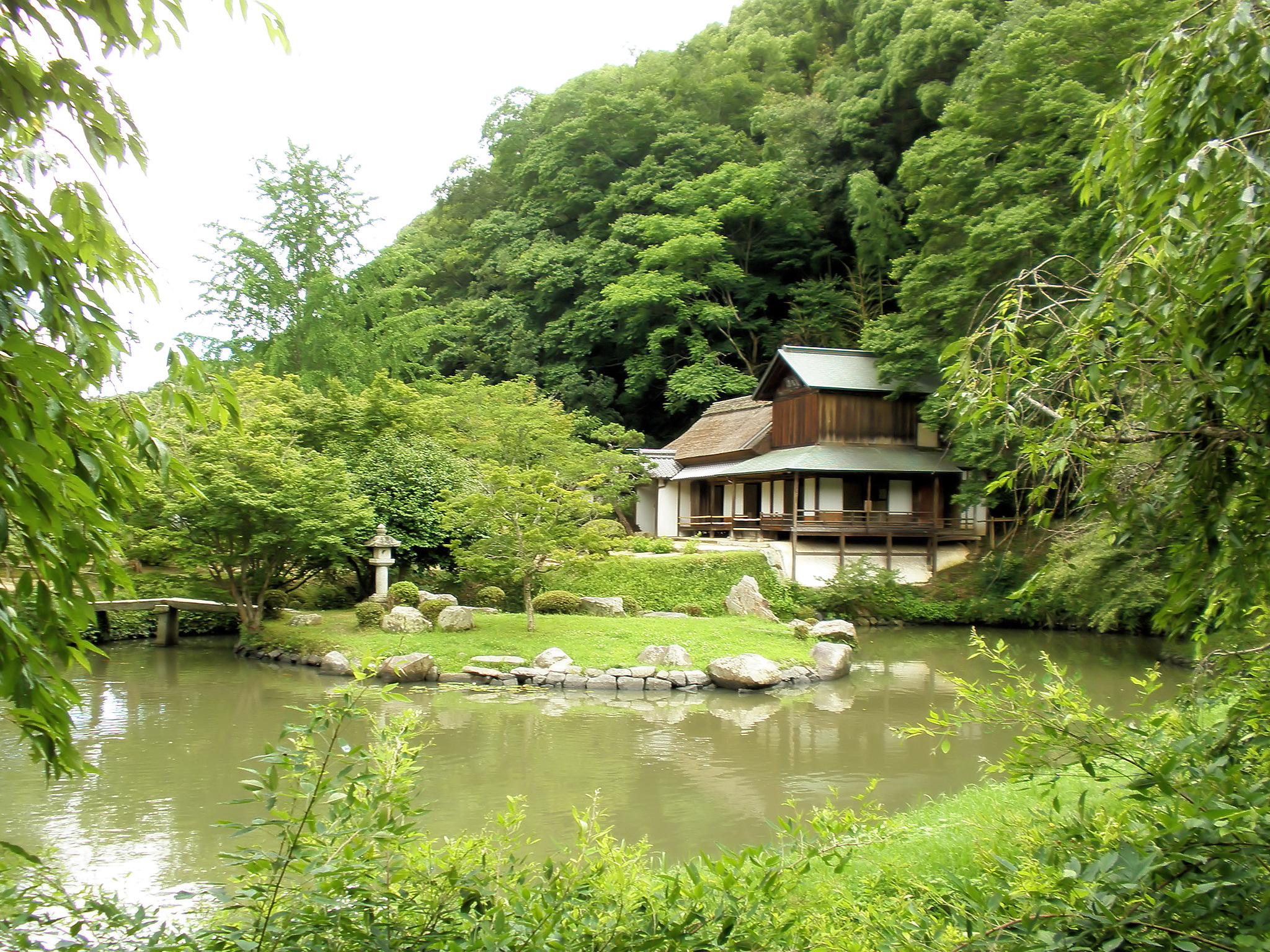 Omizuen, Ashimori, Okayama.